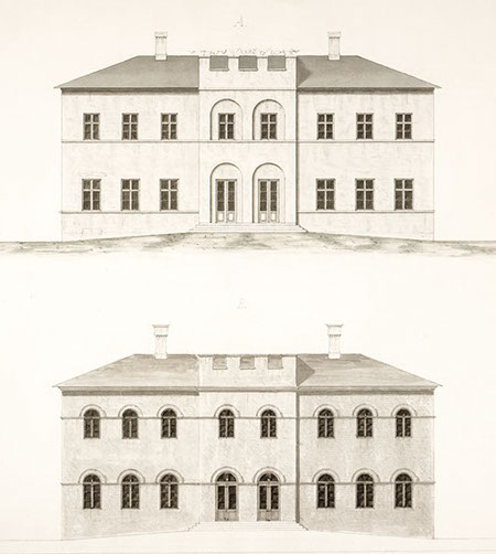 Drawing of Rosendal at Faxe, Denmark